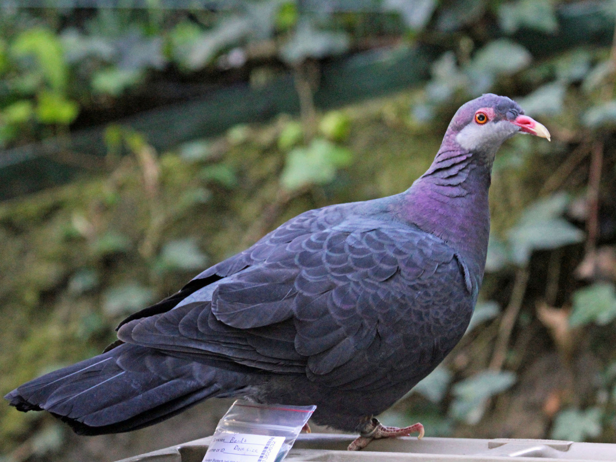 Metallic Pigeon (Columba vitiensis) - San Diego Zoo